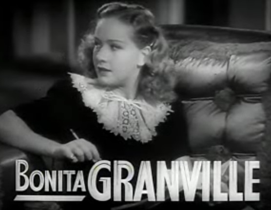 Cropped screenshot of Bonita Granville from the trailer for the film Gallant Sons